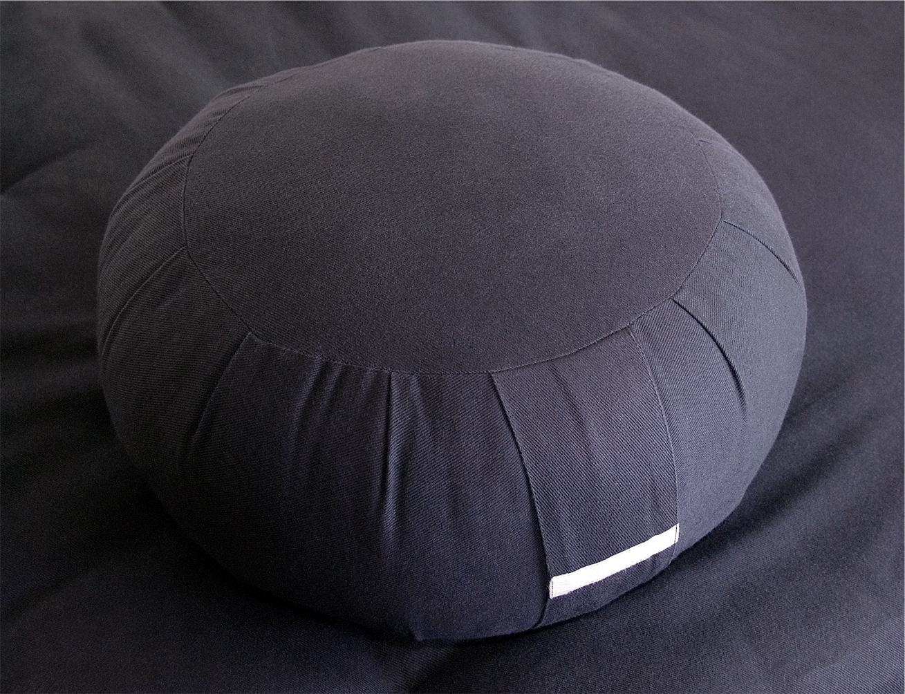 A zafu, the pouffe-shaped traditional seat cushion used in zazen (sitting meditation). This one is – as the horizontal name tag reveals – of western make.